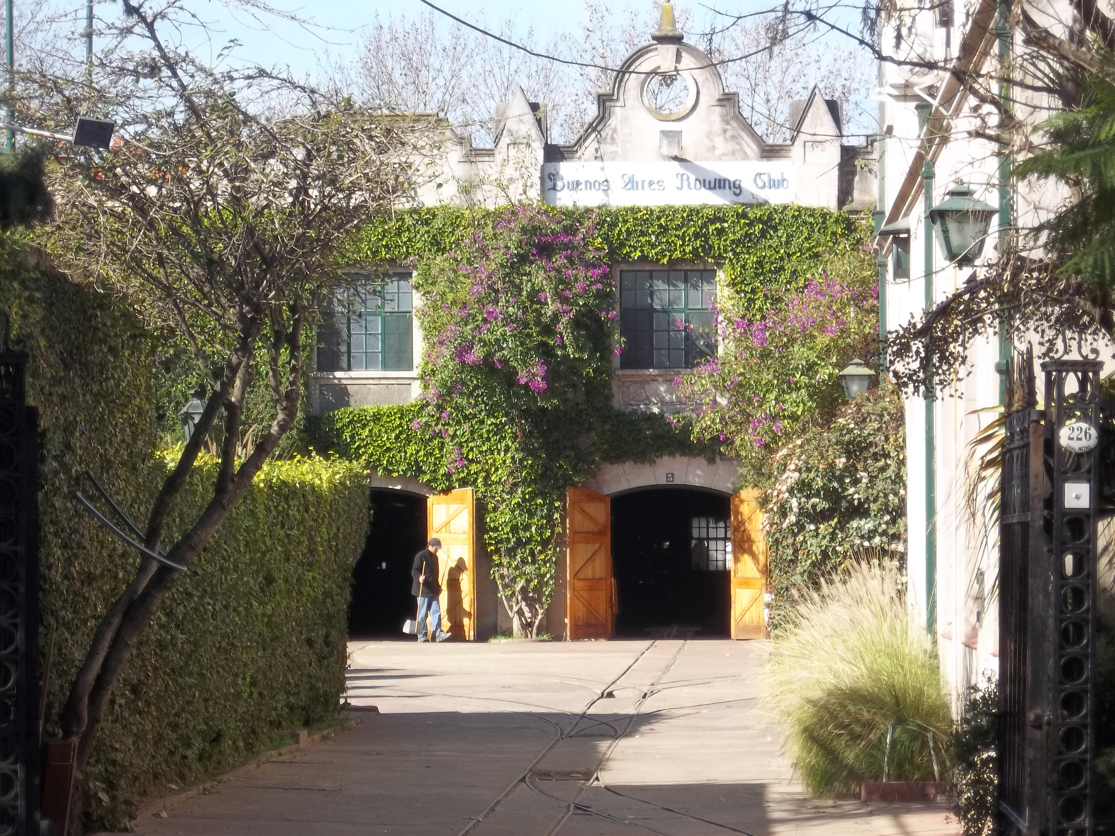 Entrada para botes del Buenos Aires Rowing Club en Tigre, provincia de Buenos Aires, Argentina.